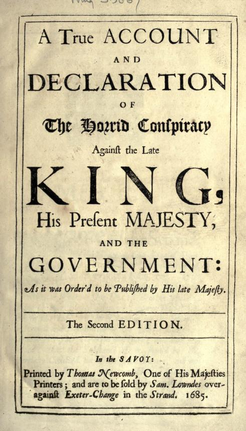 Title page of A true account and declaration of the horrid conspiracy against the late king, His present Majesty, and the government (1685, 2nd edition) by Thomas Sprat.